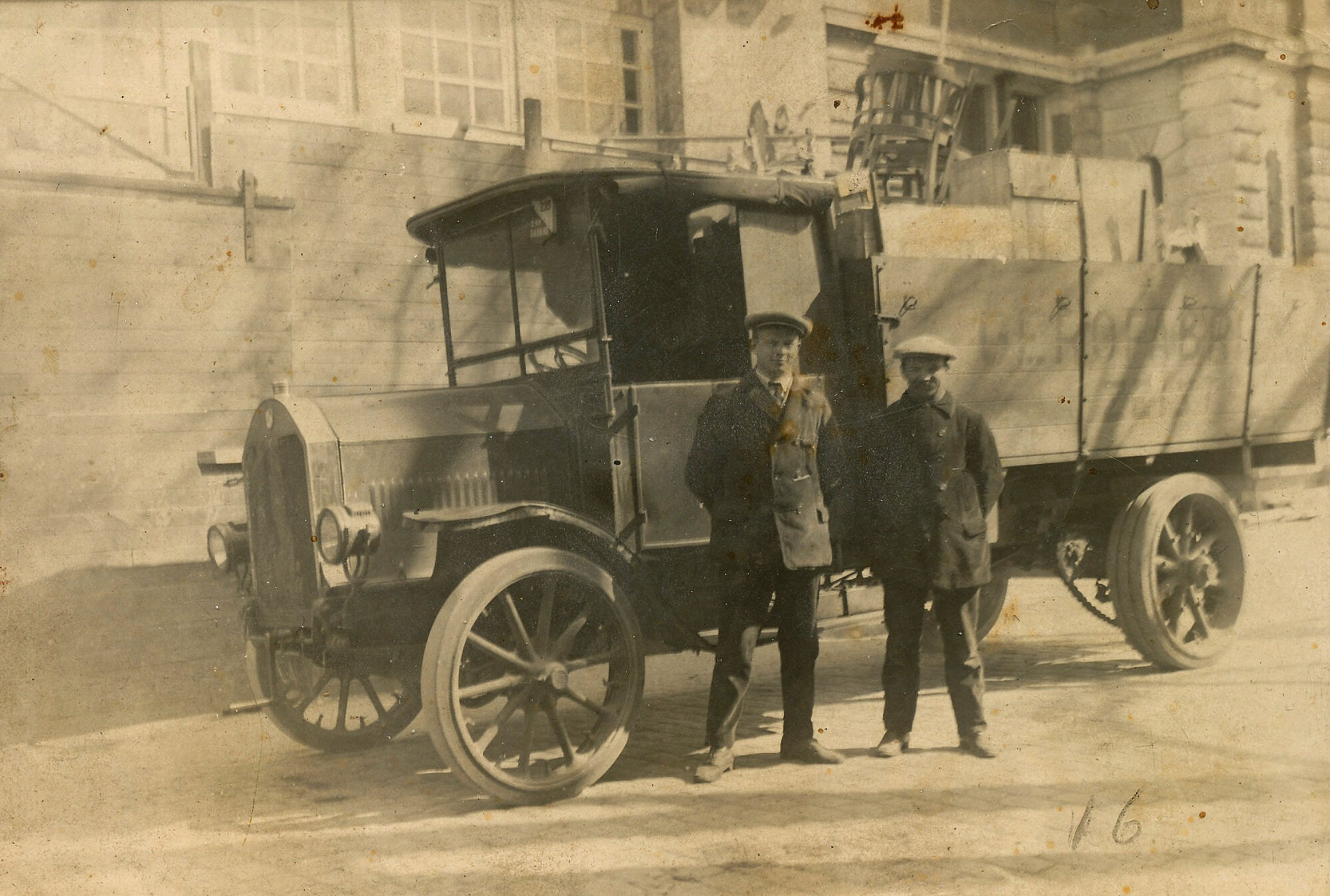 This particular German truck dates from World War I and was later used by Gero, Zeist as seen here on the photo, Zeist, The Netherlands (exacte locatie onbekend)